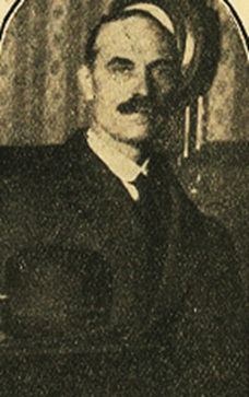 Abel Fontoura da Costa, government minister of Portugal during the First Republic (1910-1926).